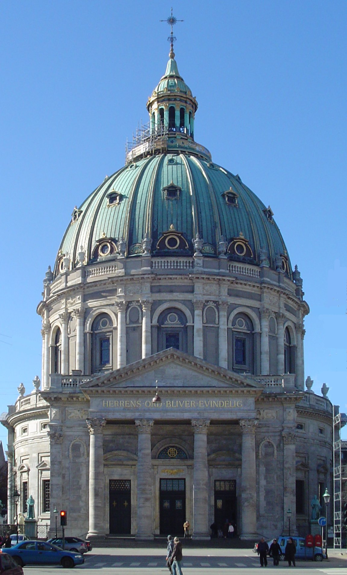 The Marble Church in Copenhagen, Denmark. Photo taken by me on 27/3-2005.